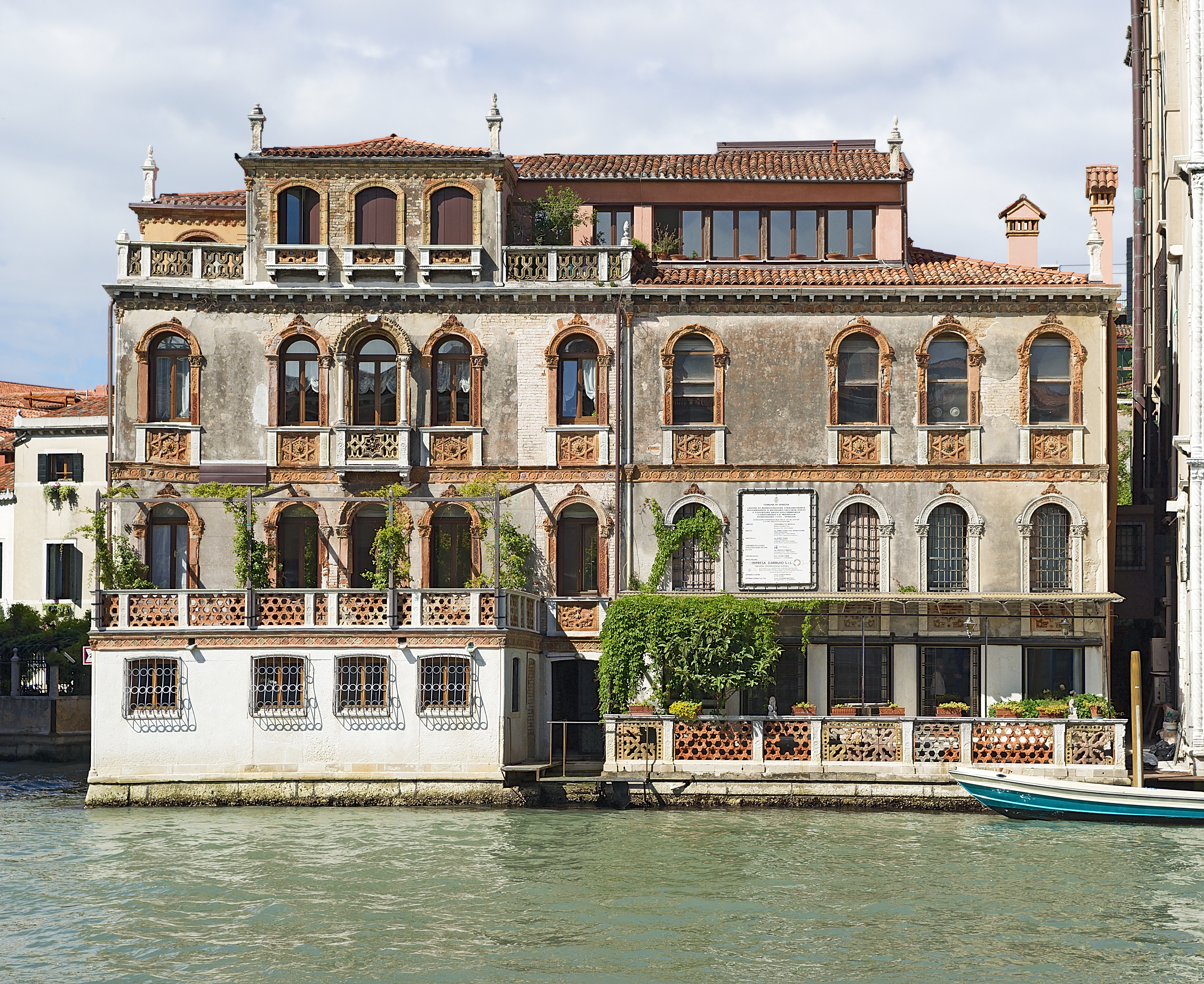 Casa Mainella, Venice. View of the facade of the Grand Canal.